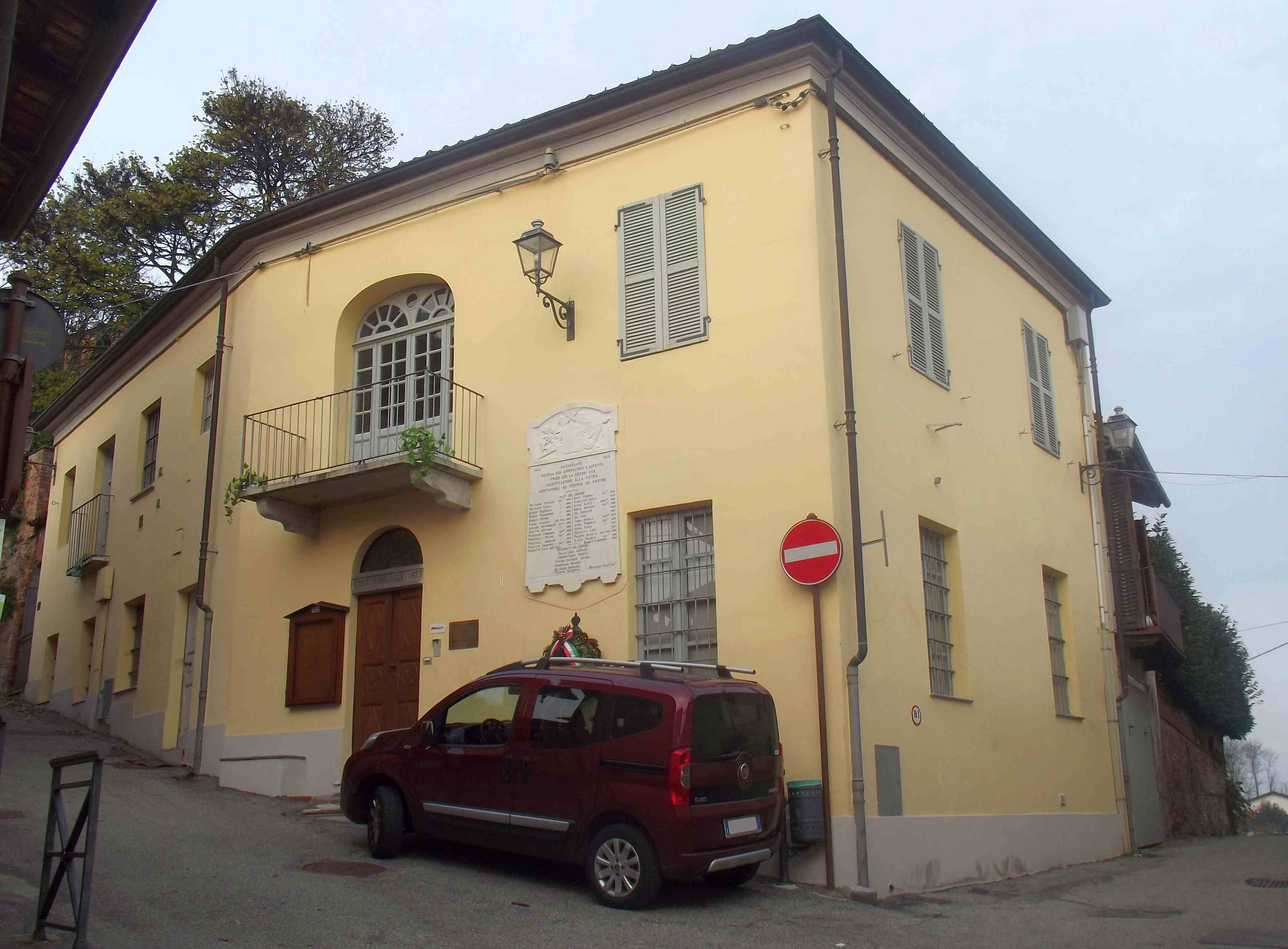 Bardassano (Gassino, TO, Italy): former town hall